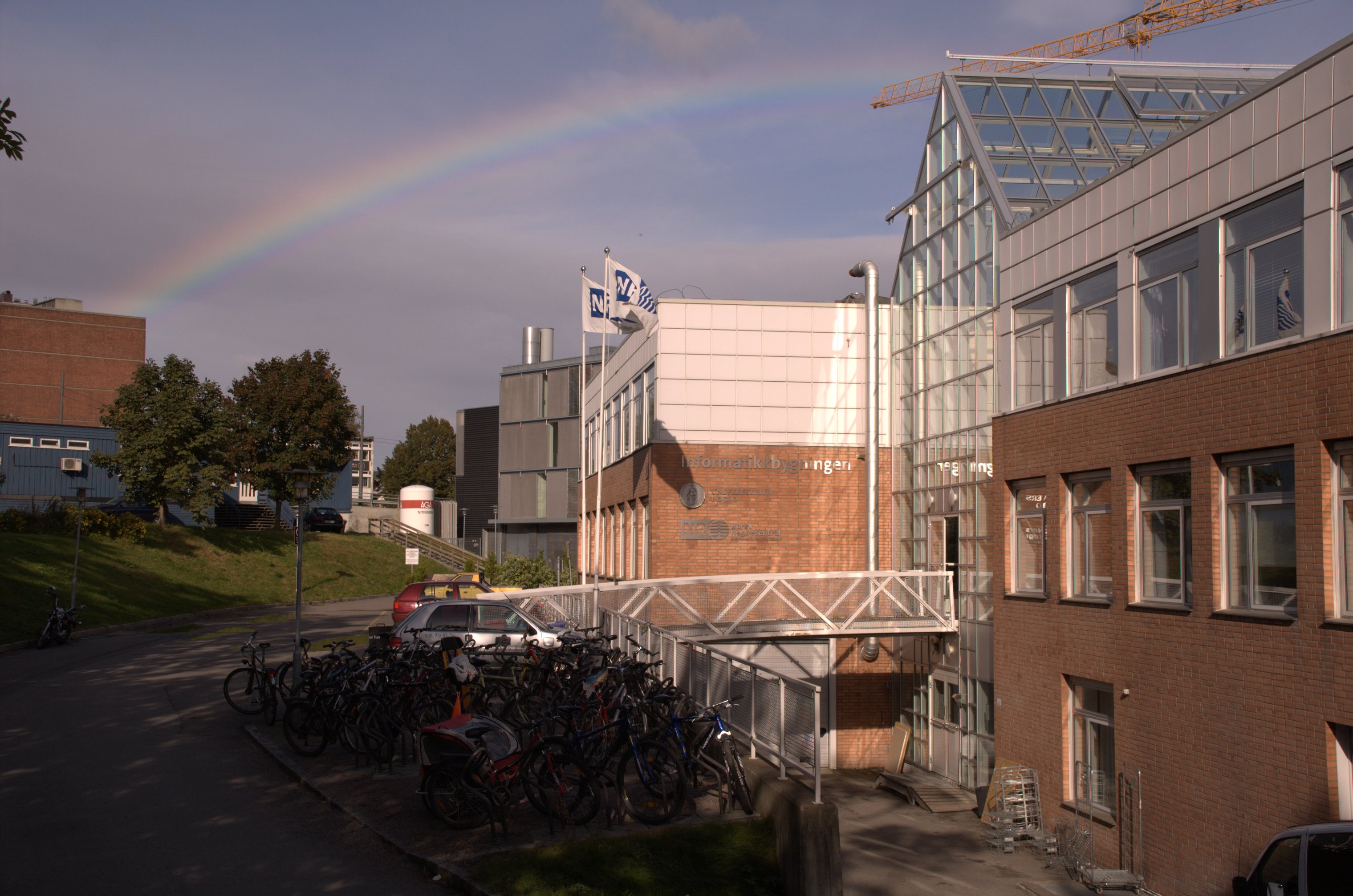 The building where Norsk Regnesentral is located.